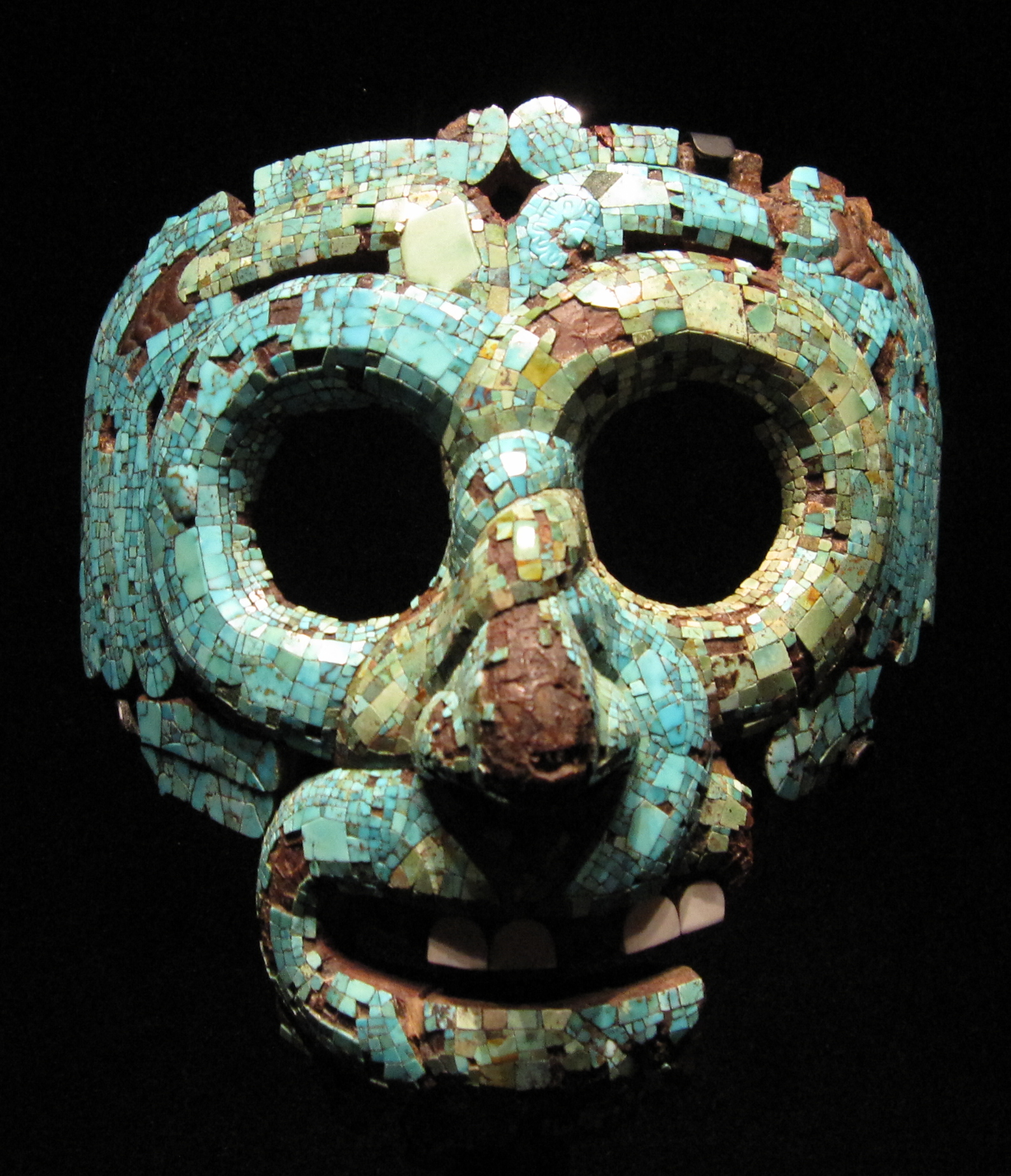 Turquoise mosaic mask. Mixtec-Aztec, 1400-1521 CE. Ethno. Q 87 Am.3. British Museum.